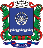 Obninsk (Kaluga oblast), proposal coat of arms (2003)